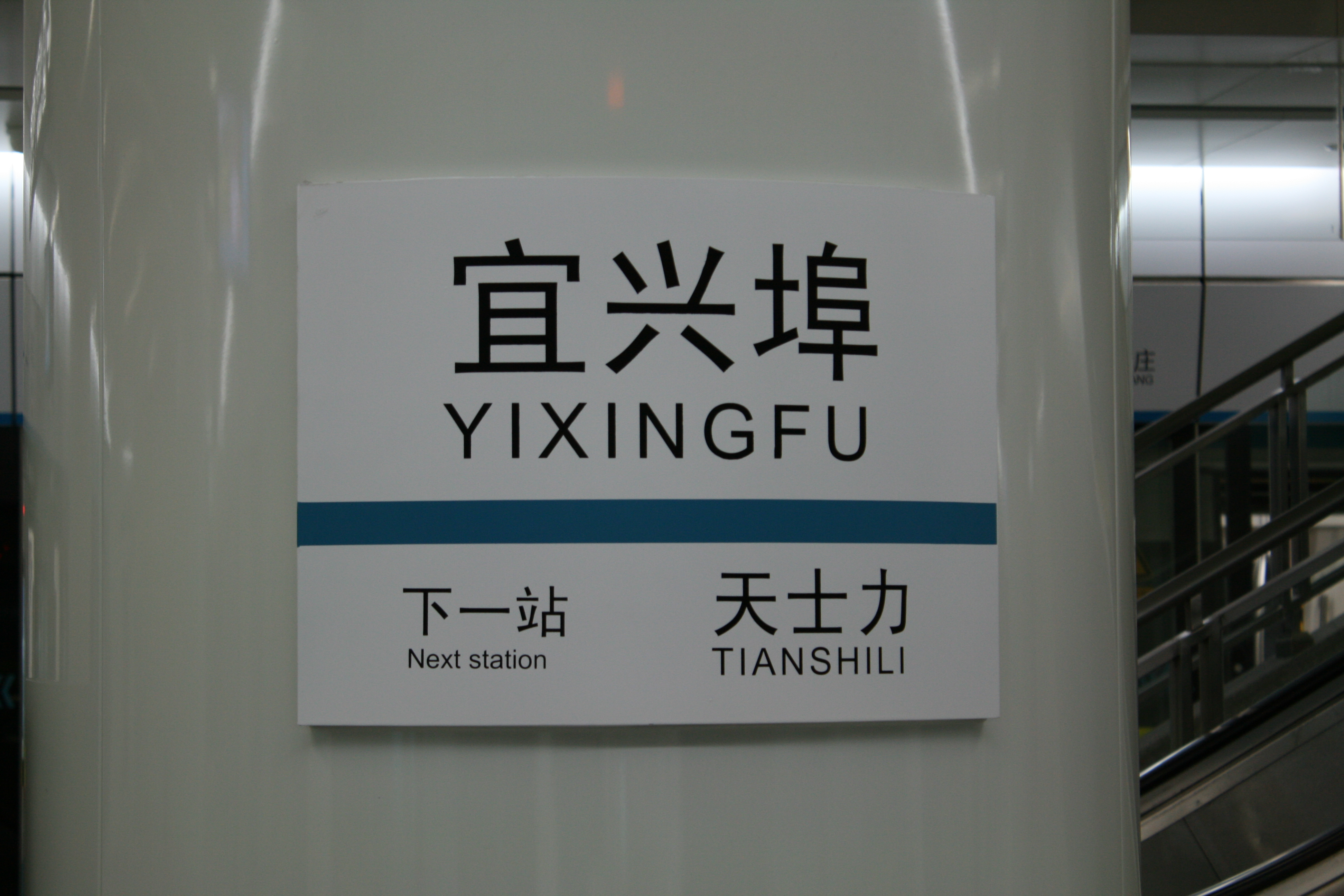 tianjin metro line 3 the YIXINGFU Station ...0002